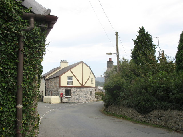 Siop Gron - A Former Shop and Sub-Post Office. Until three or four years ago, Siop Gron served the village as its post office and only shop. It has now been converted into a residence with a new extension built at the back. The reason why it was, and, to the locals, is still known as Siop Gron ('the Round Shop') is apparent from the photo. The building is situated on bad bend on the narrow Caernarfon to Deiniolen main road.